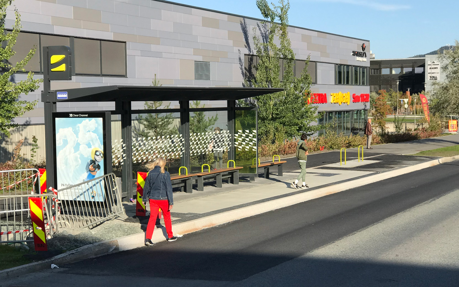 Bus stop on the new Metrobuss transportation system in Trondheim, Norway